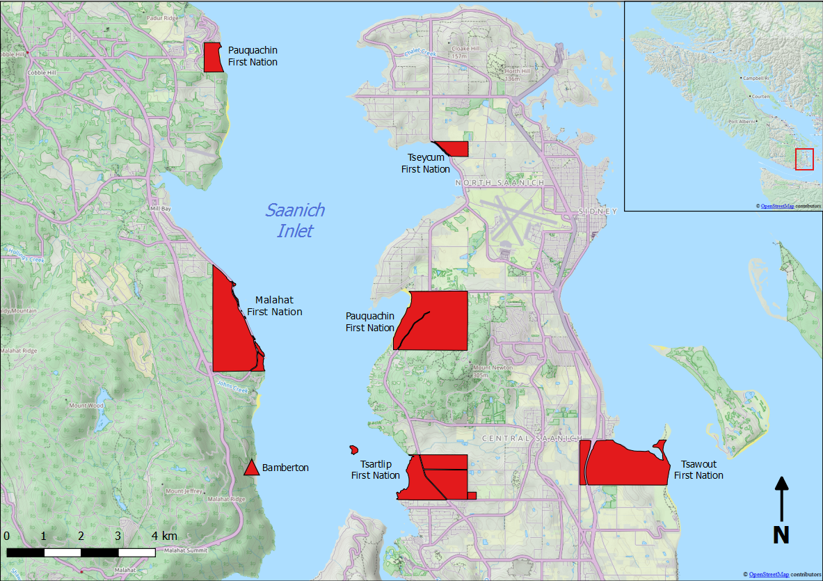 Map showing the location of the Bamberton Industrial Site and the surrounding First Nation Reserves This map may be incomplete, and may contain errors. Don't rely solely on it for navigation.